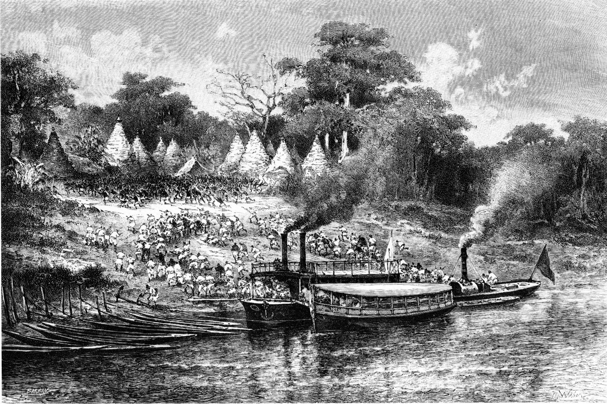 Disembarking at Yambuya, today in the Democratic Republic of the Congo.